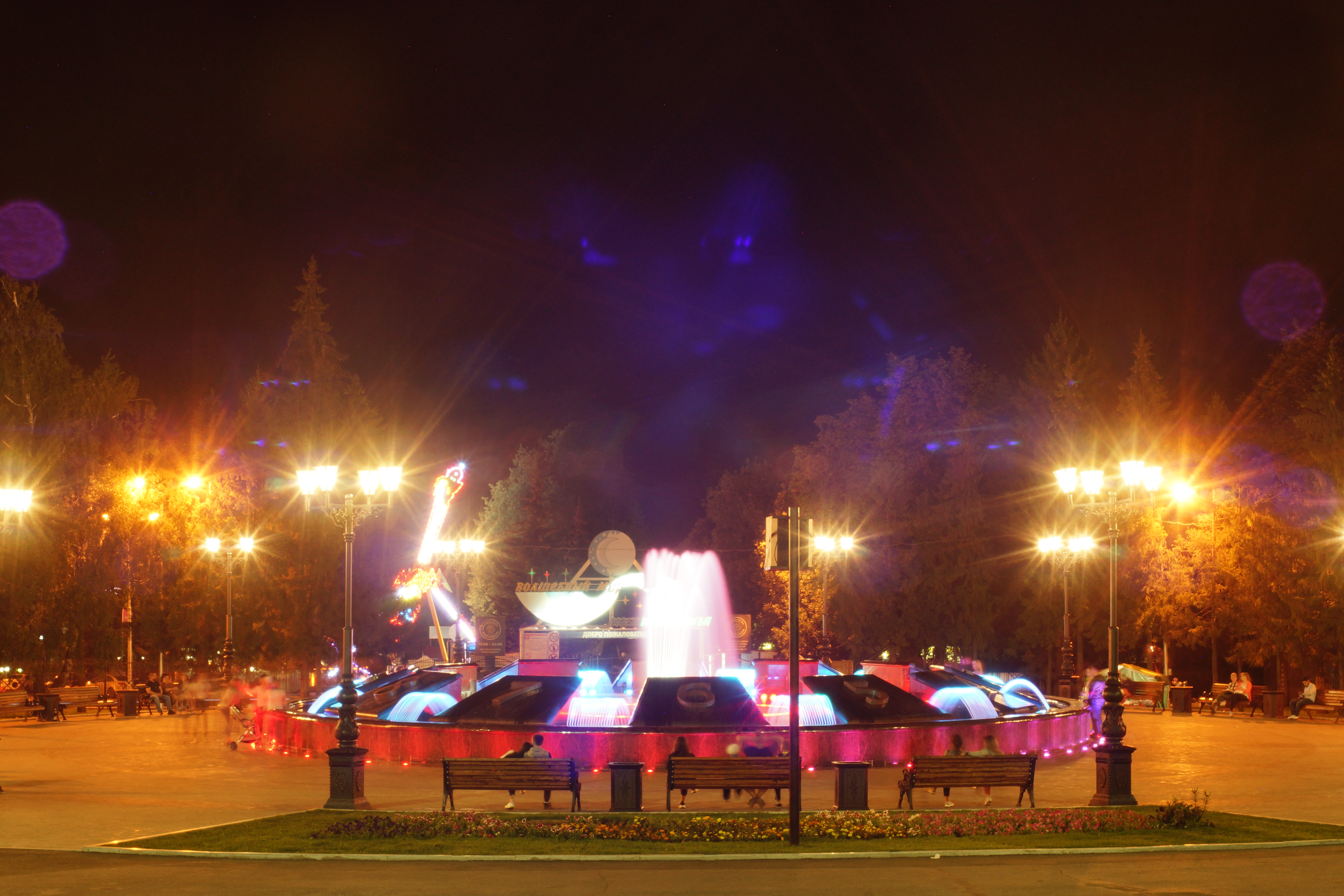 The color music fountain on Lenin Square, Ufa, Russia, opened in June 2019. Depicts a clock. Shooting at night with a slow shutter speed.